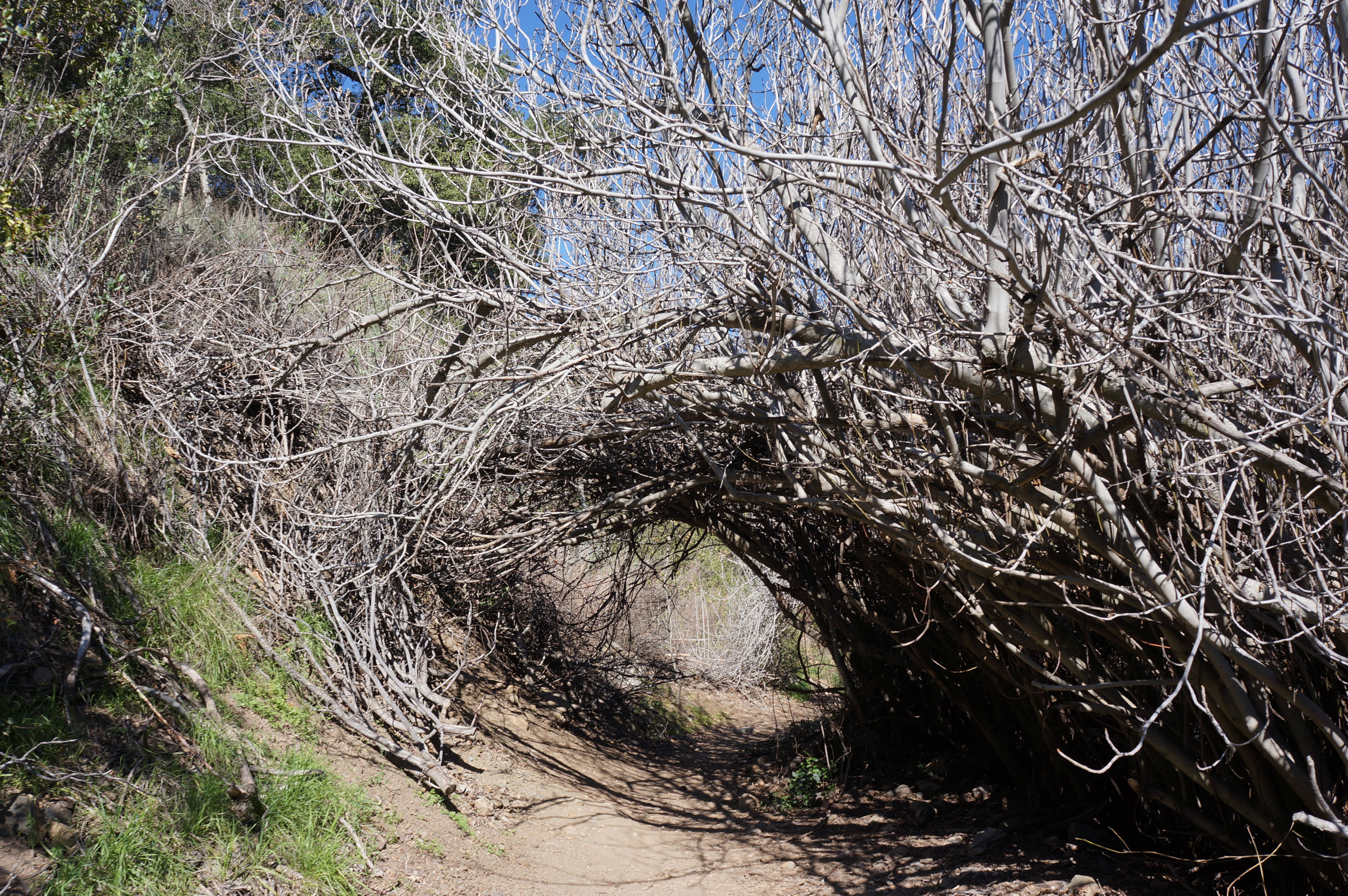 Photo of the path to Holy Jim Falls taken in the Spring of 2013.